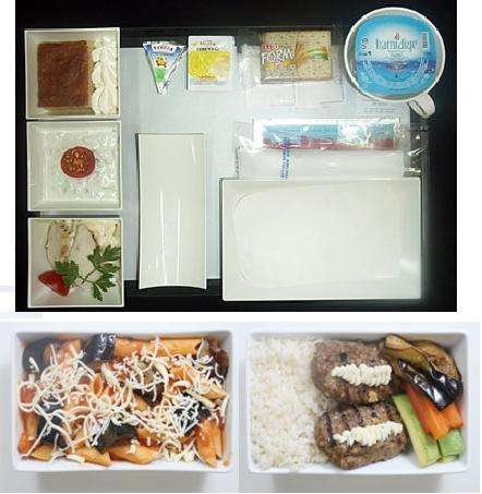 Sample of service for overseas/extended range flights.economy class